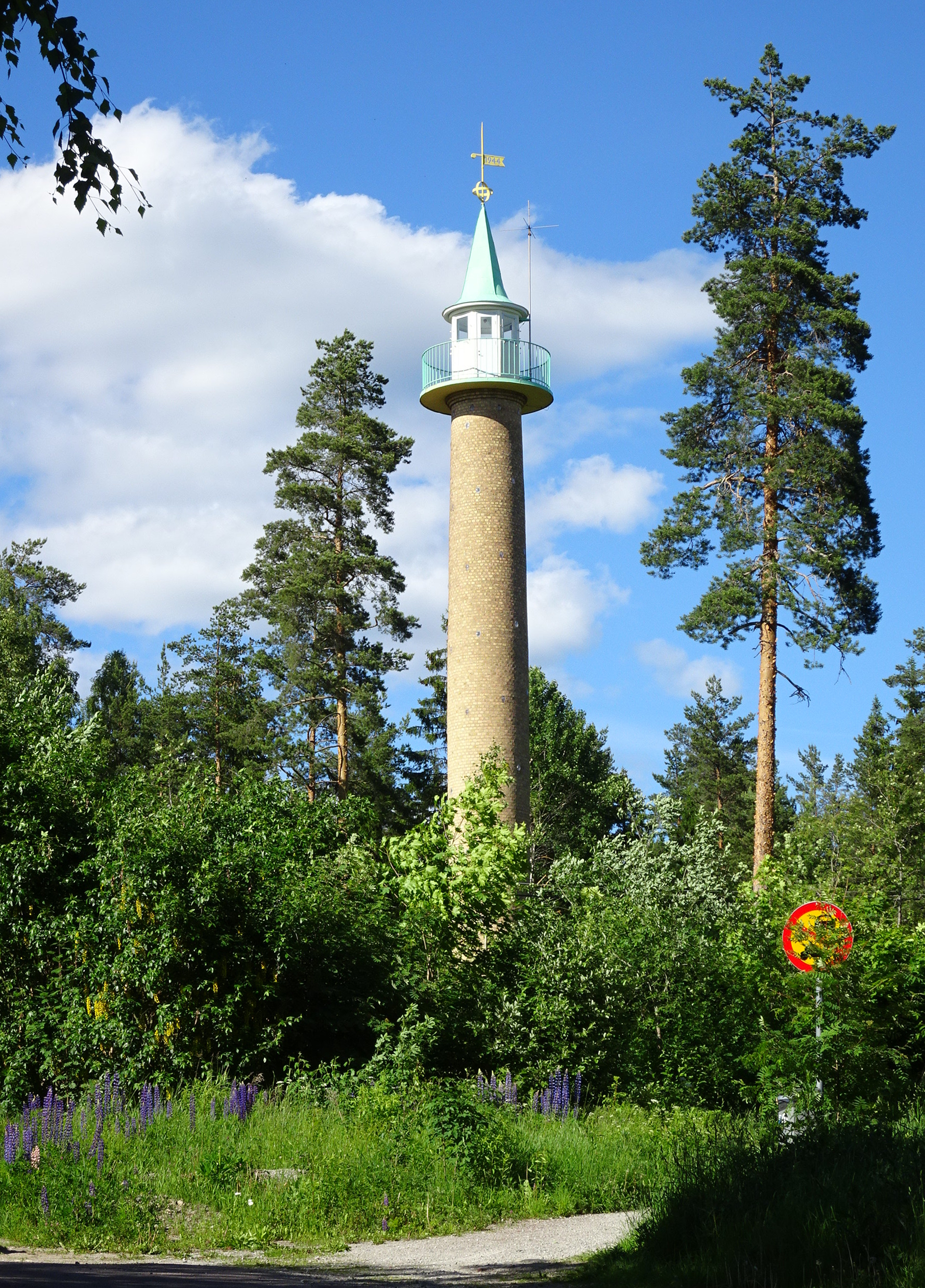 Fagersta aircraft Warning Service Observation Tower was built in 1944, 26 metres high. It is built with bricks and looks like a minaret. The tower was built rather late in WW2, and was not really used. The tower was declared a listed building in Västmanland county in Sweden in the year 2013.